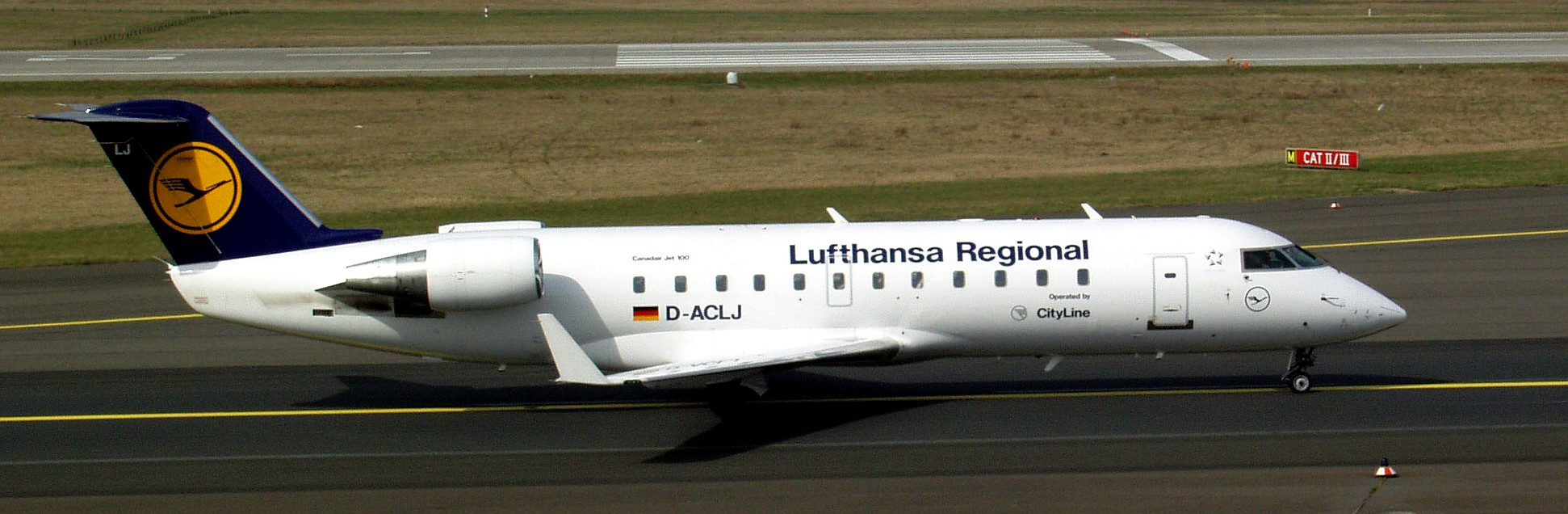 Lufthansa Regional - CRJ 100 LR (D-ACLJ) - Airport Düsseldorf